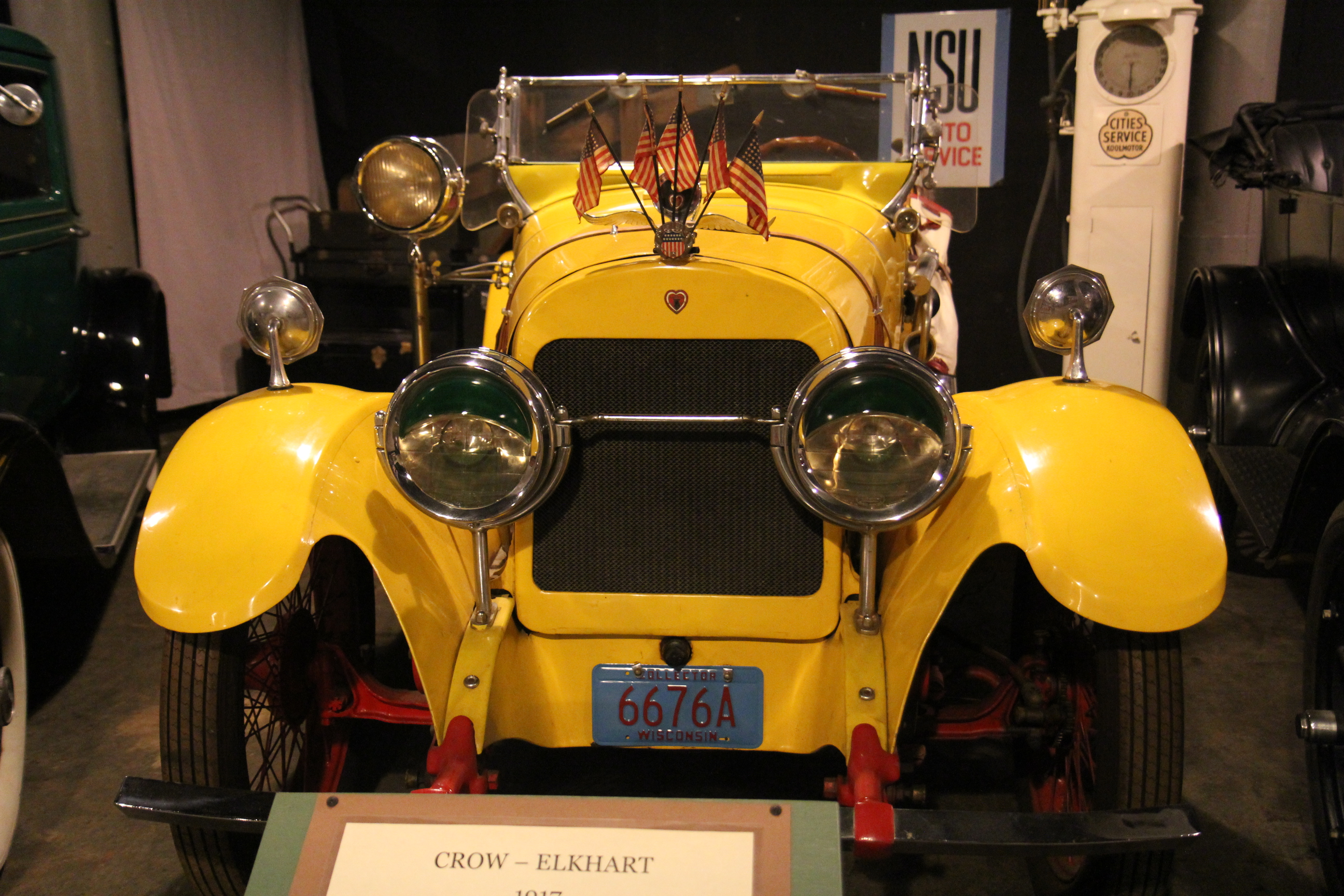 1917 Crow Elkhart 35 on display at the Wisconsin Automobile Museum.